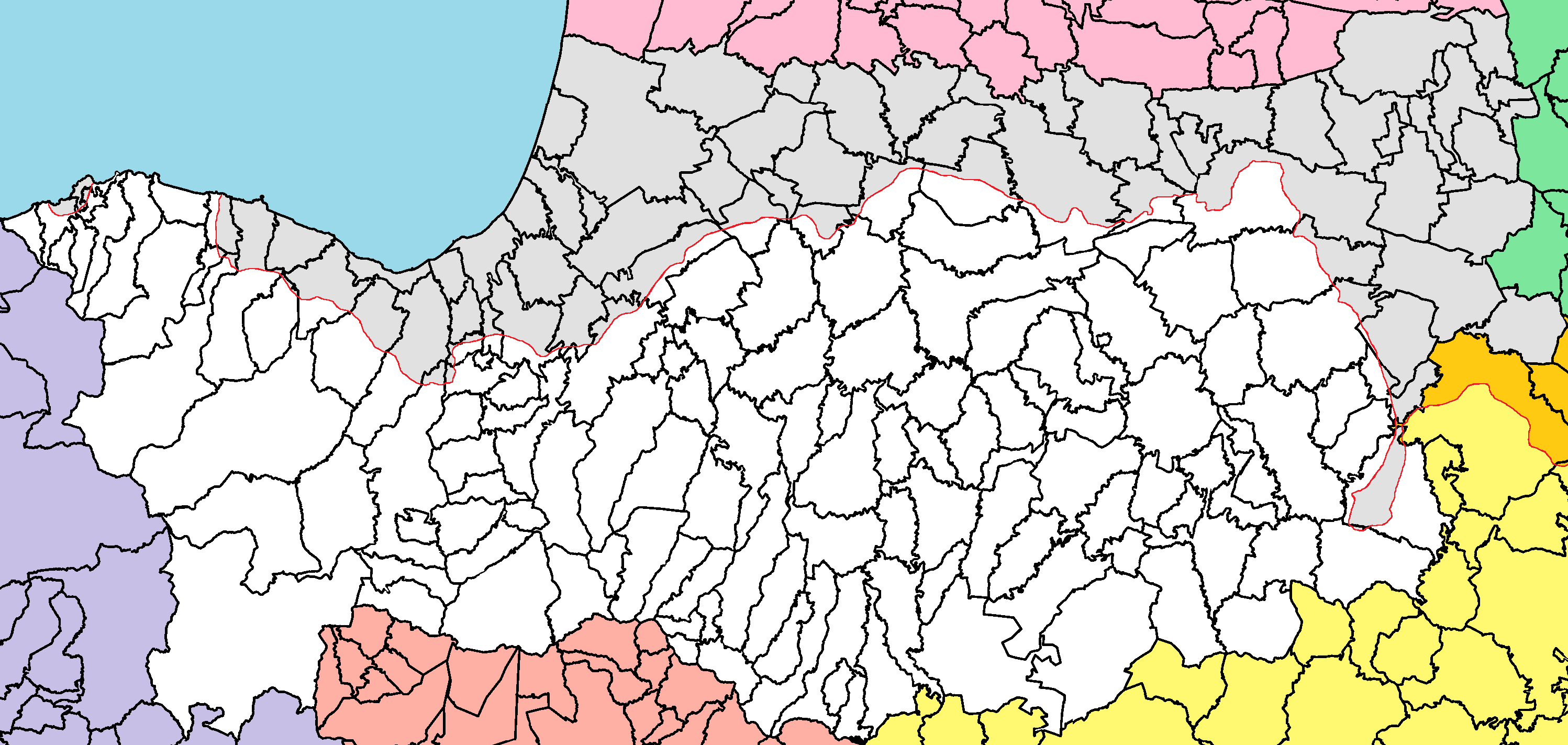 Nicosia District (de jure).